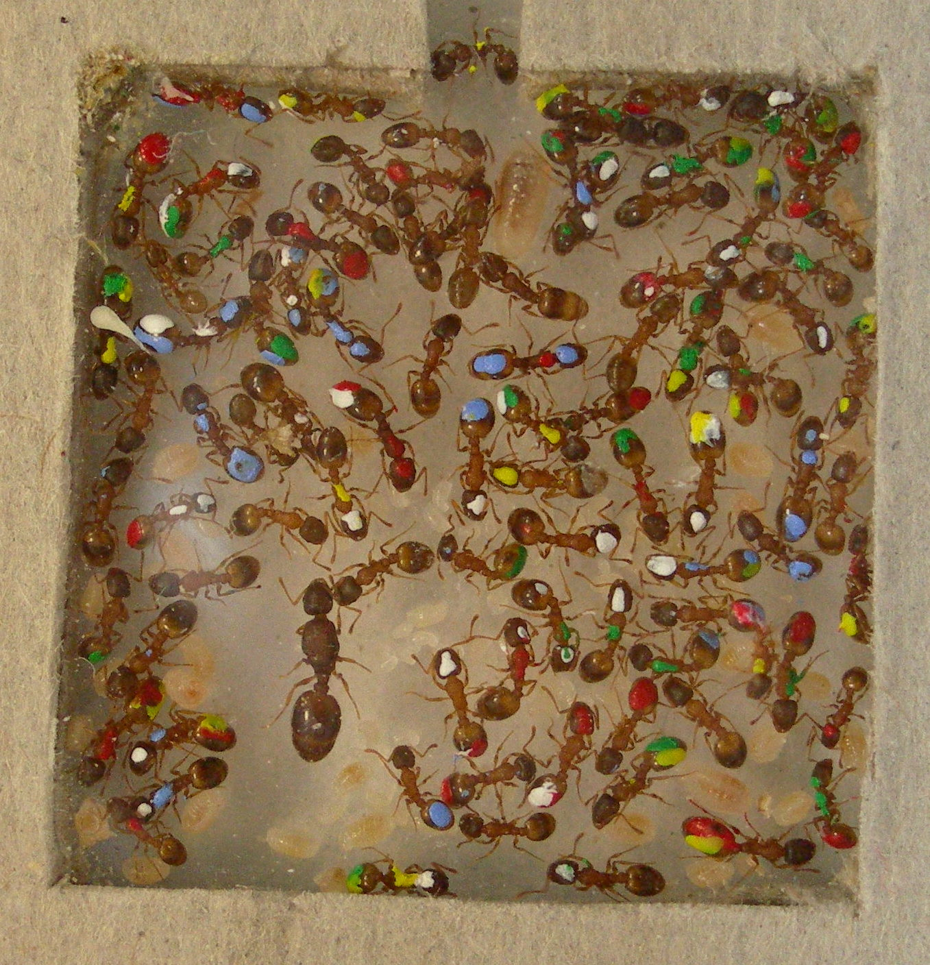 Temnothorax ants, individually paint marked inside a laboratory nest